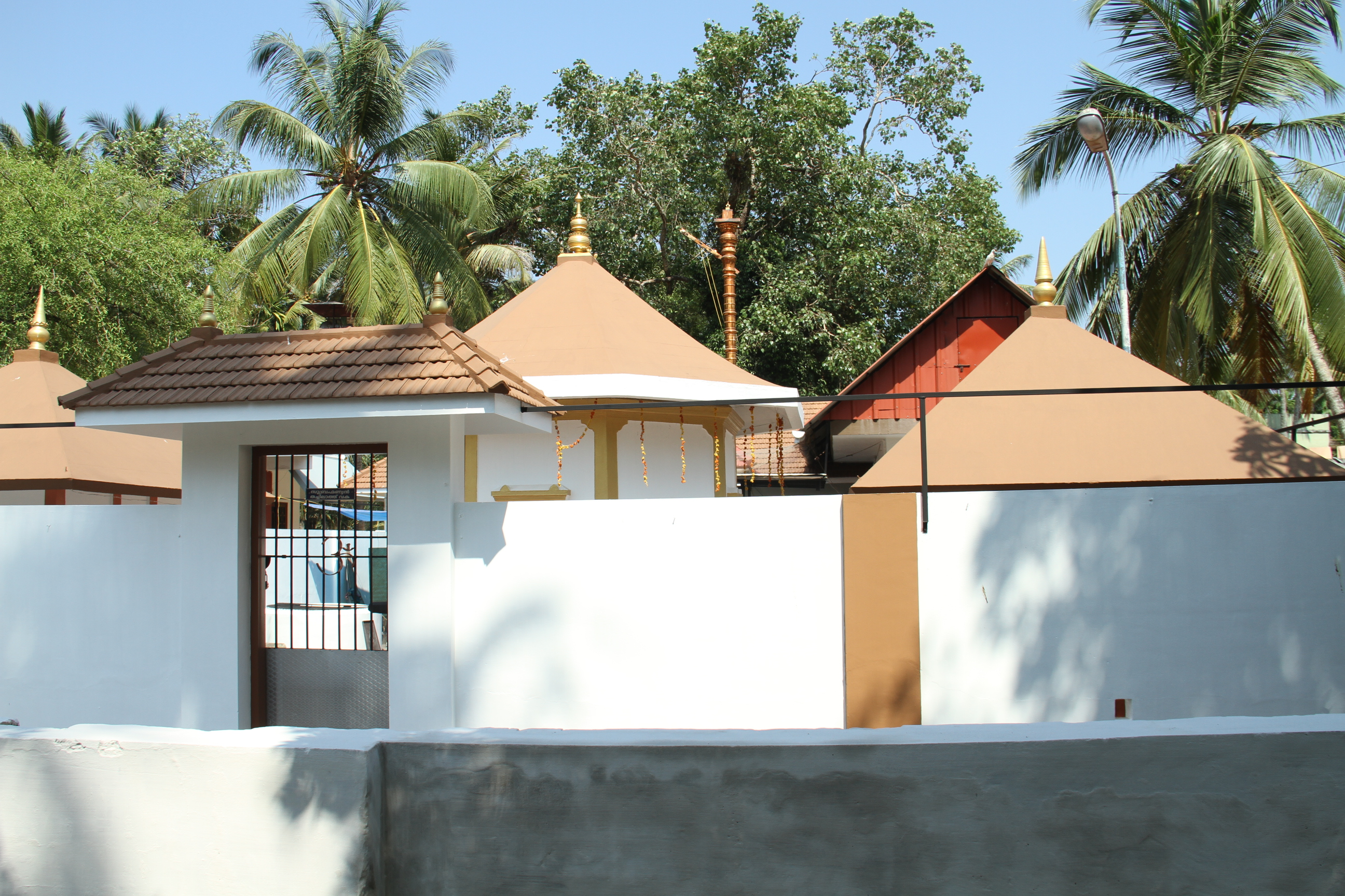 MURUKA TEMPLE